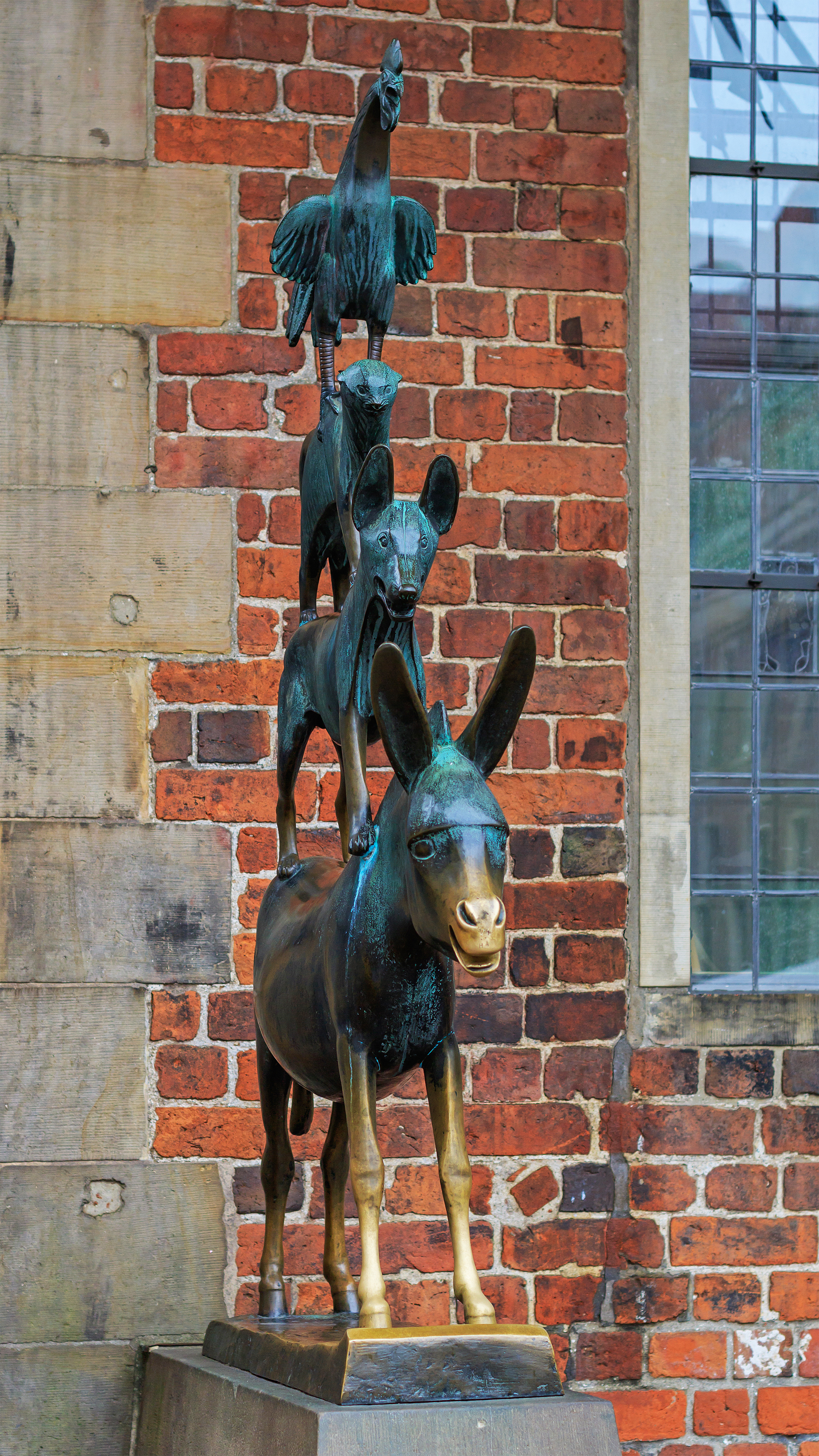 Sculpture of the Bremen Musicians in Bremen, Germany